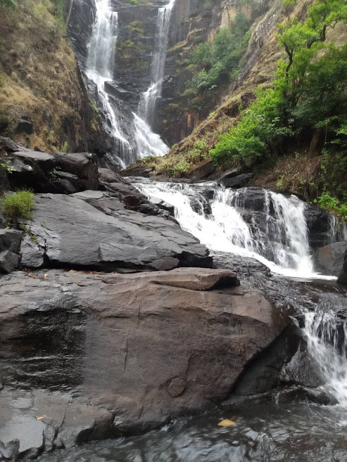 A view of the Kundalila Falls in Dry season